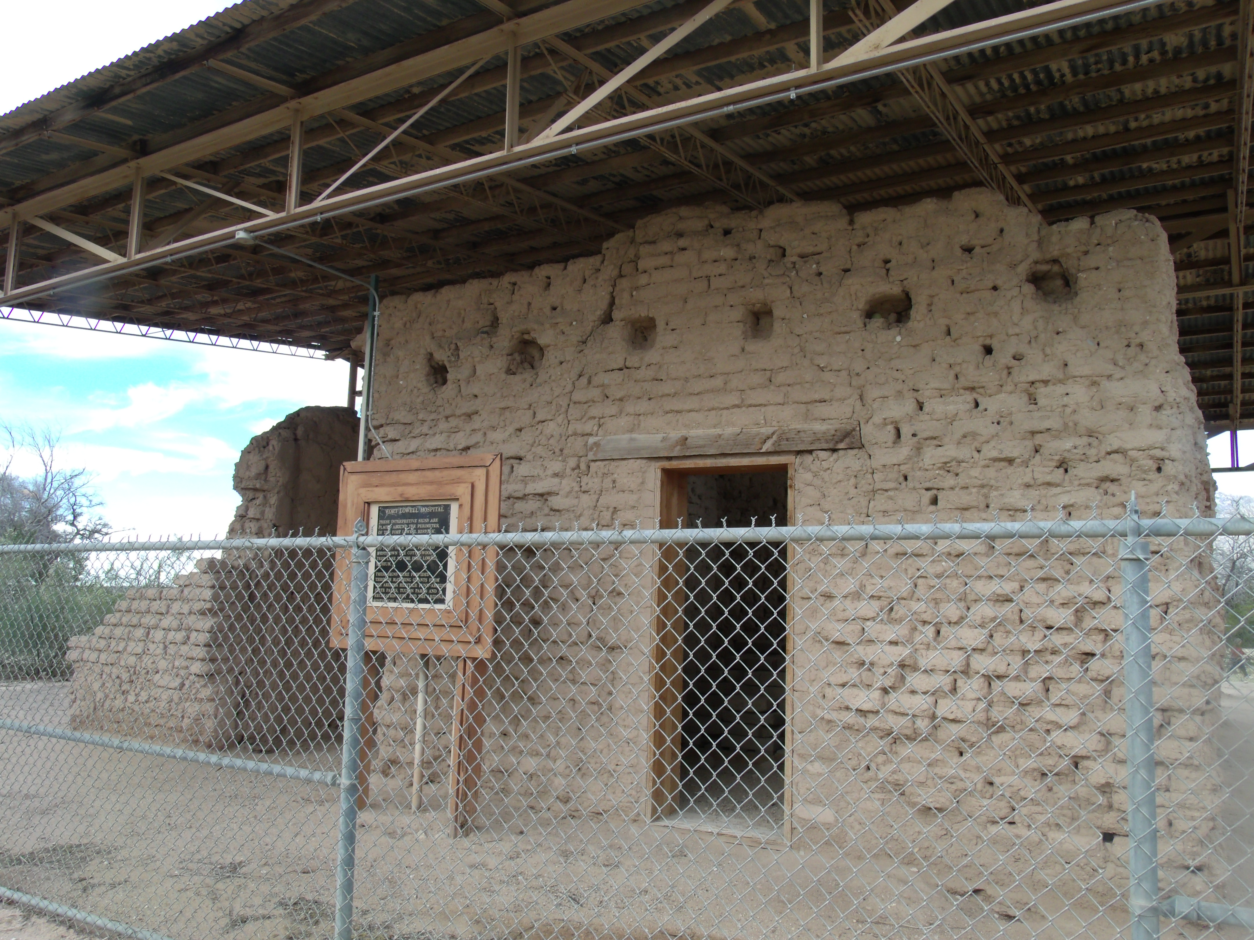 The Fort Lowell Hospital ruins. The hospital was built in 1878 and is located in the Fort Lowell Park at 2900 N Craycroft Rd. in Tucson, Az. The park was listed in the National Register of Historic Places in 1978, ref.: #78003358.